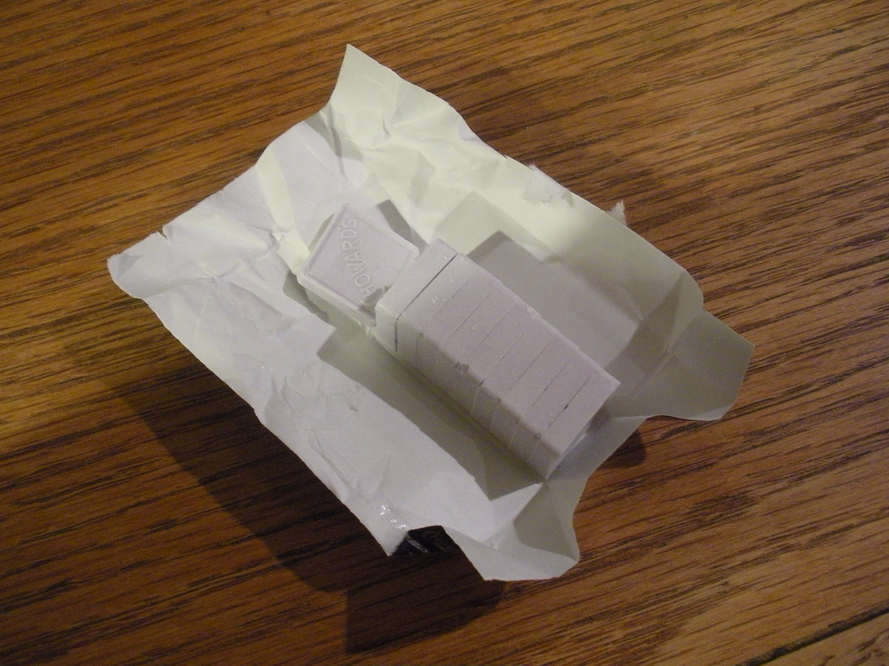 An opened package of C. Howard's Violet candies. This picture is also available at